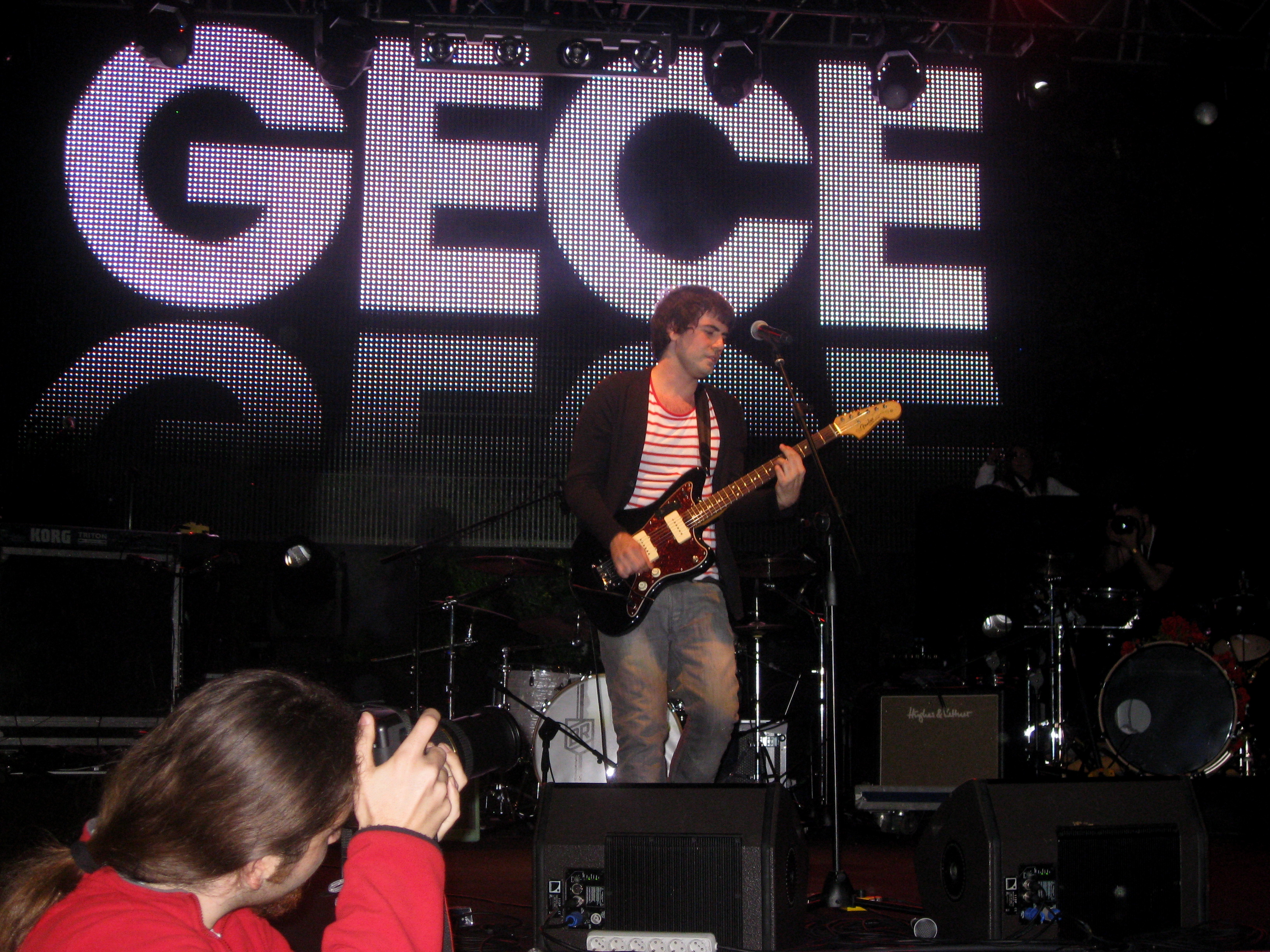 Gece band in the Spring Fest at Bahçeşehir University, photo shows vocalist Can Baydar.